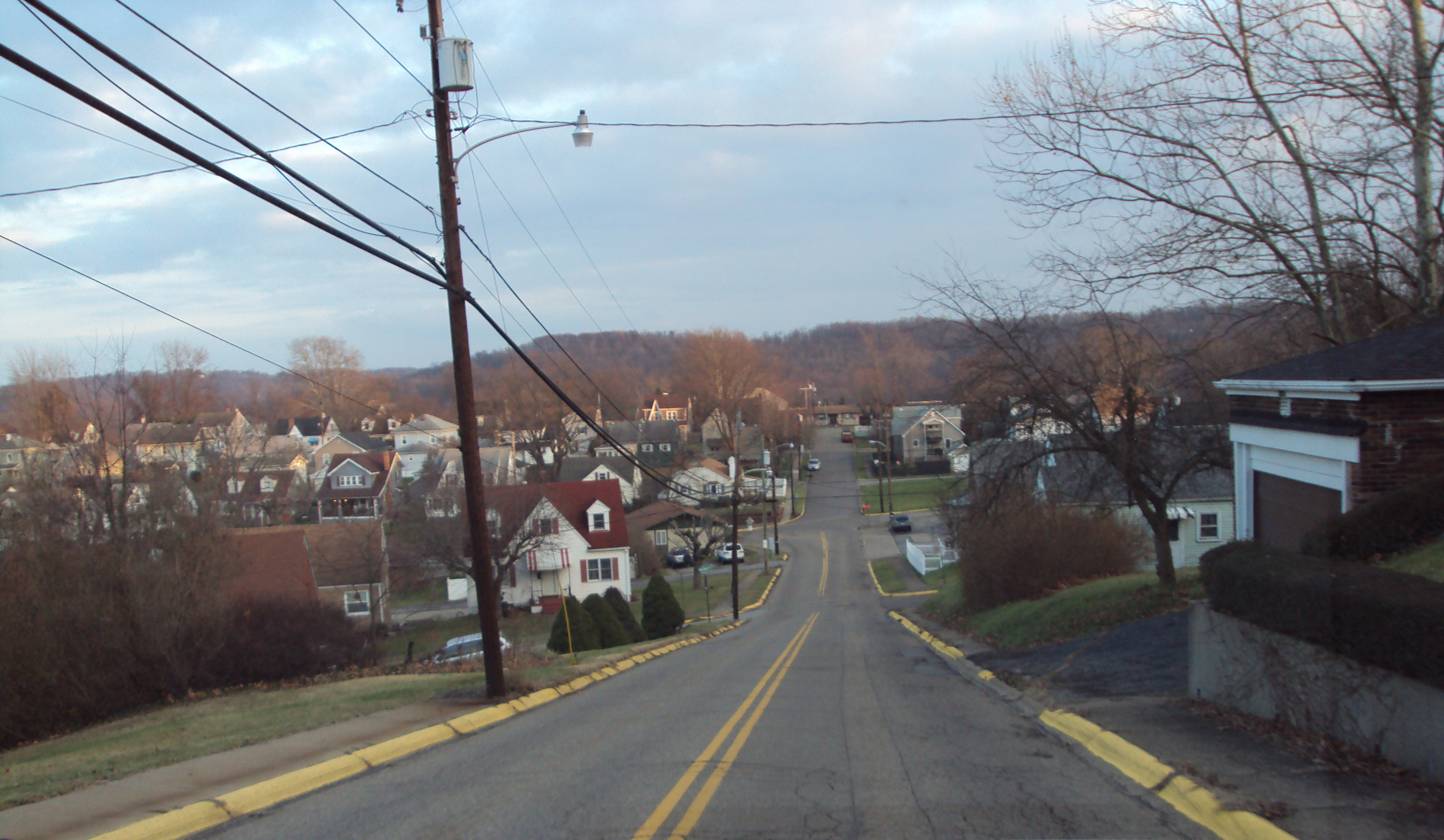 The Marland Hights District of Weirton, West Virginia. Compared to the downtown picture, it shows the difference in the distinct neighborhoods of Weirton. Other information The Marland Hights District of Weirton, West Virginia. Compared to the downtown picture, it shows the difference in the distinct neighborhoods of Weirton.